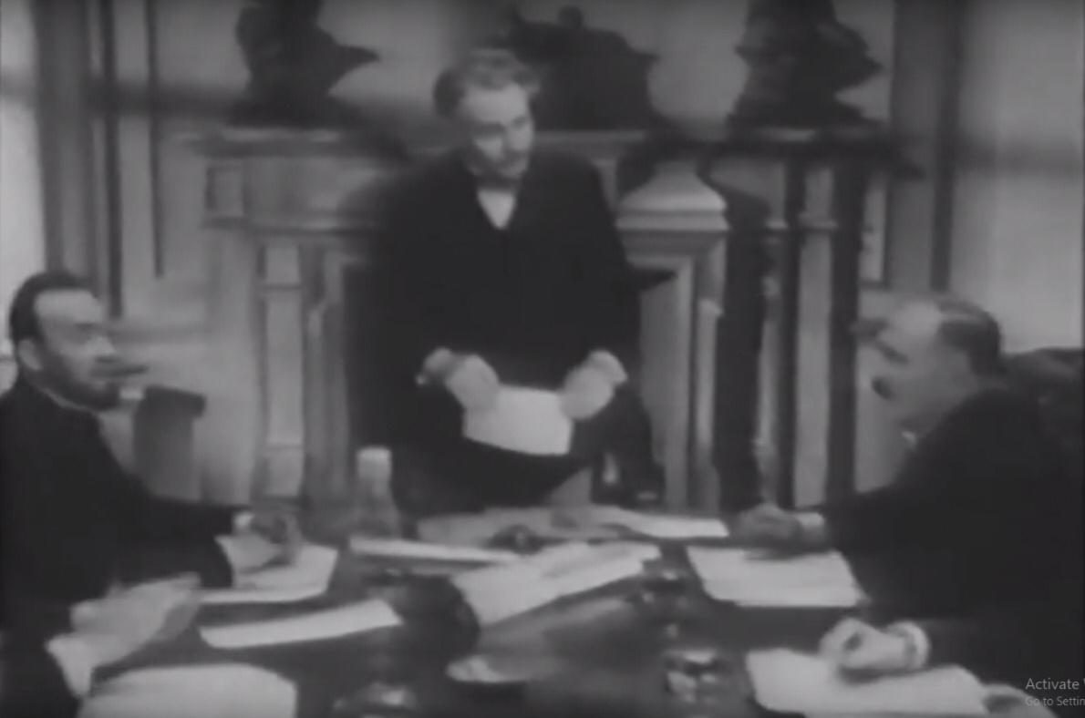 Rhodes of Africa 1936-Rhodes explaining the future plans of his company to his workers